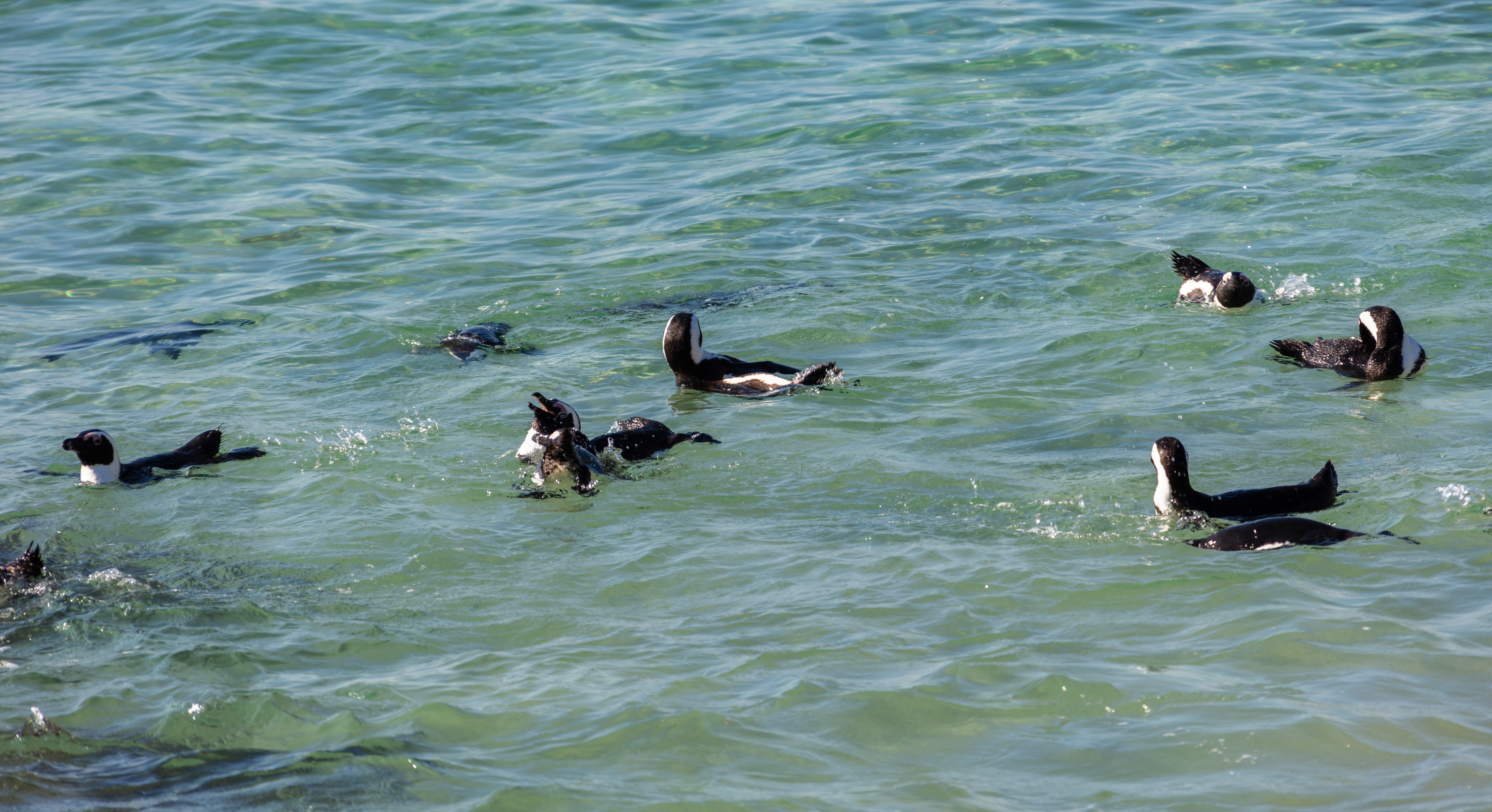 African penguins (Spheniscus demersus), Boulders Beach, Simon's Town, South Africa